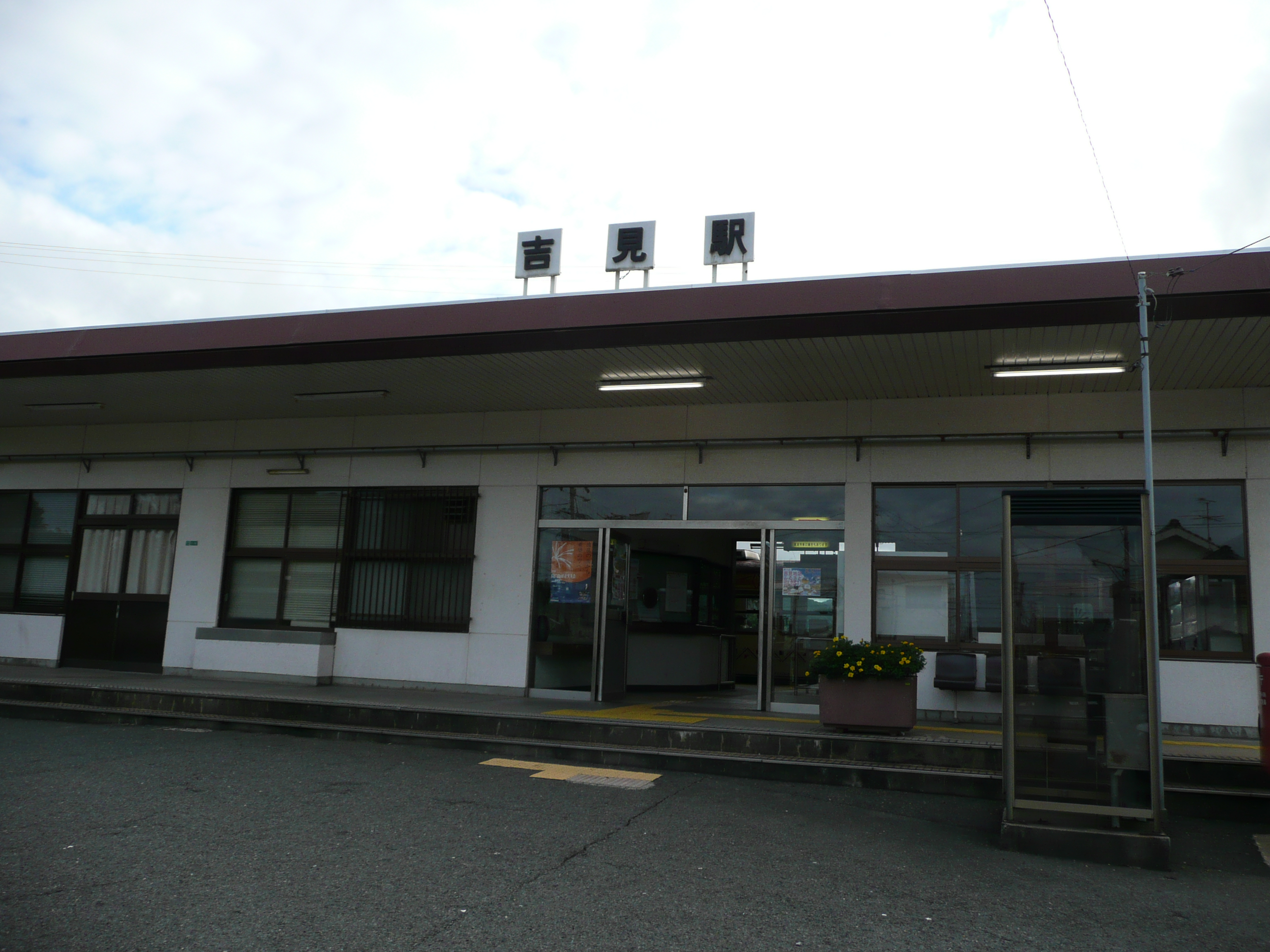 吉見駅の駅舎